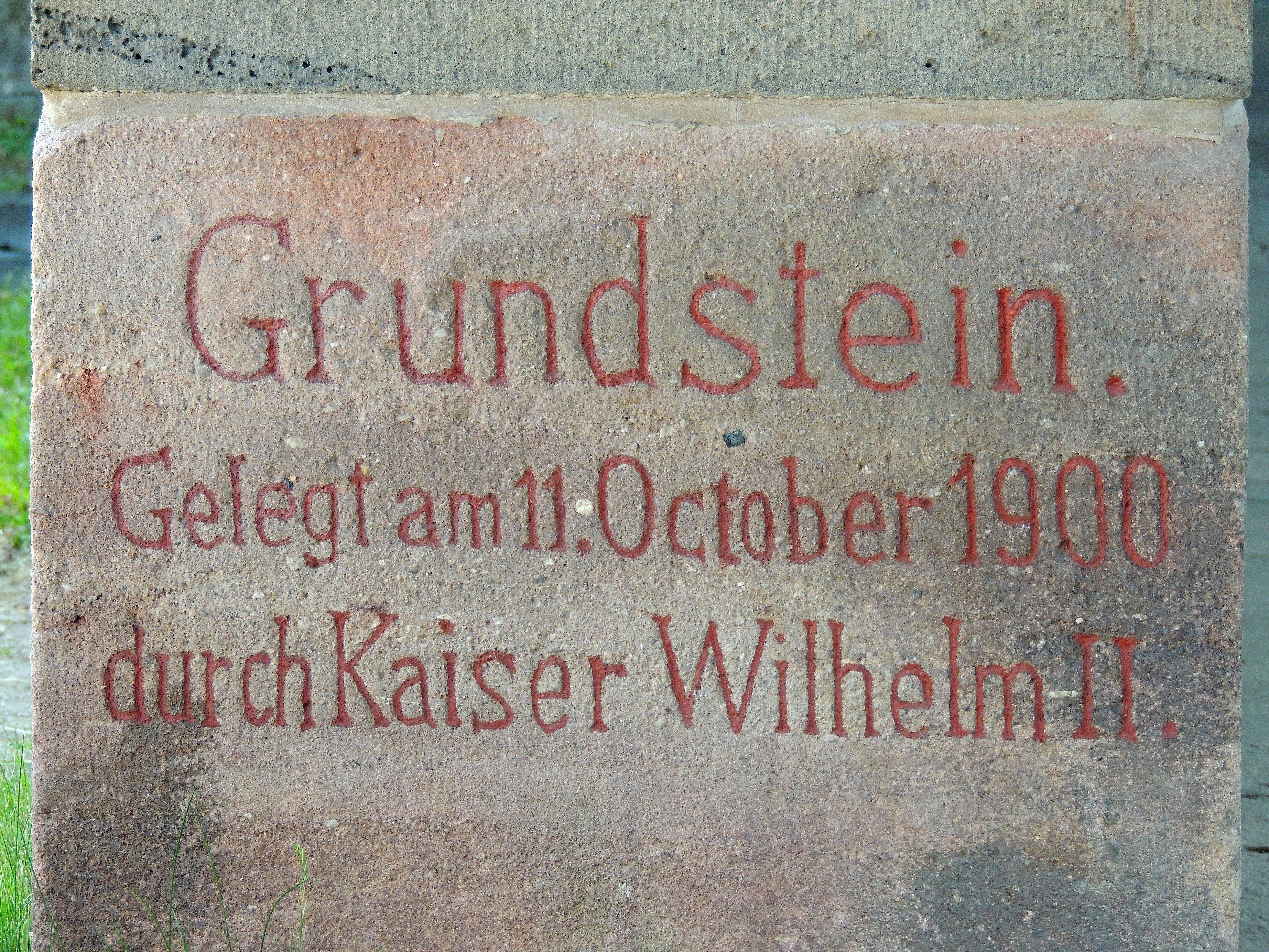 Foundation stone for the reconstruction of the Roman fort Saalburg near Bad Homburg, Germany, June 16th 2013